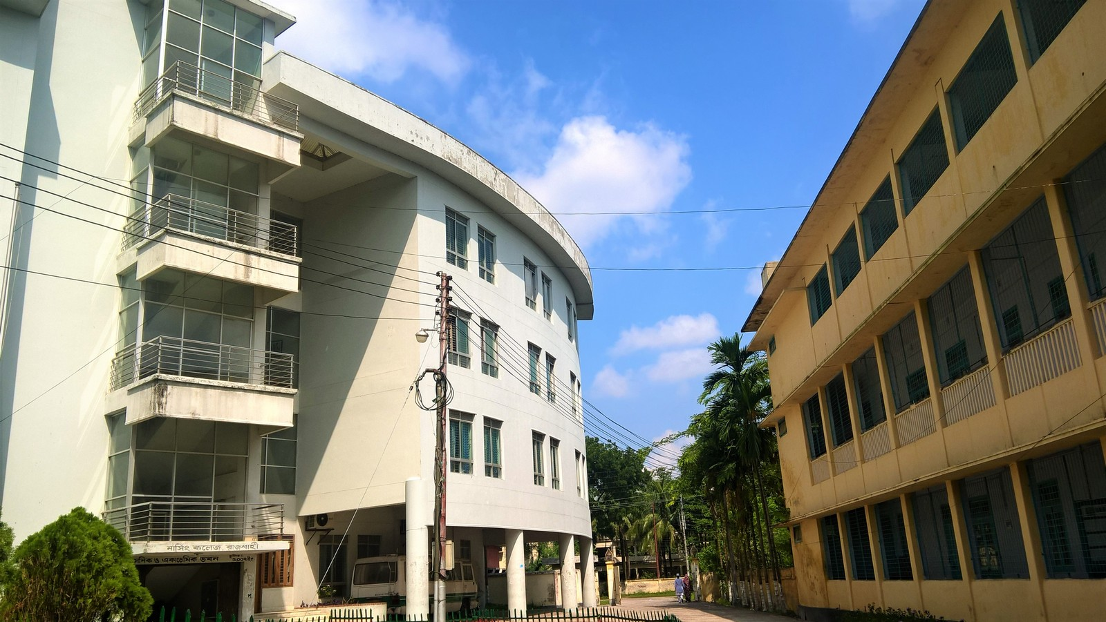 Rajshahi Nursing College is one of the Government Nursing College affiliated by Rajshahi University.